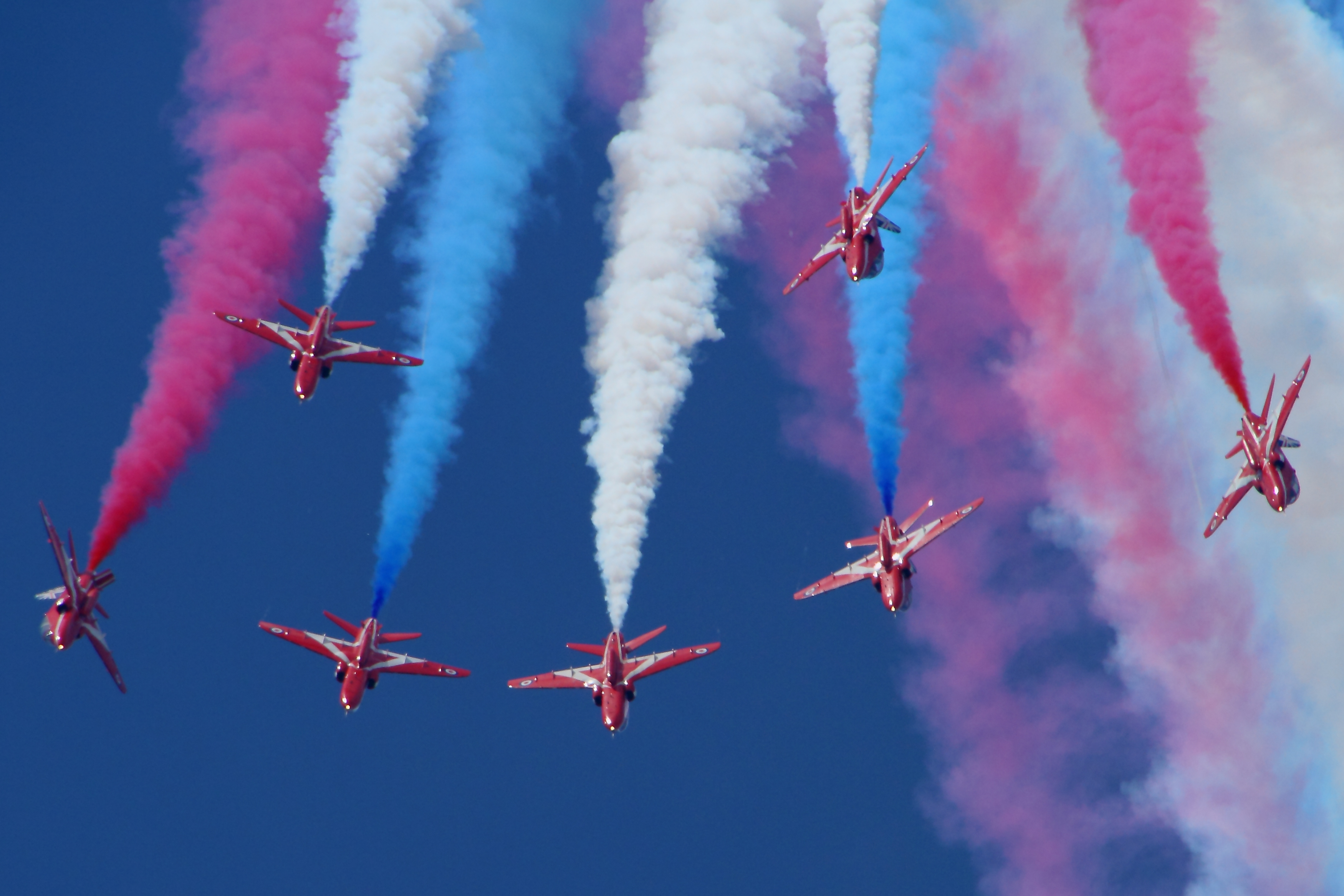 Red Arrows - RIAT 2014